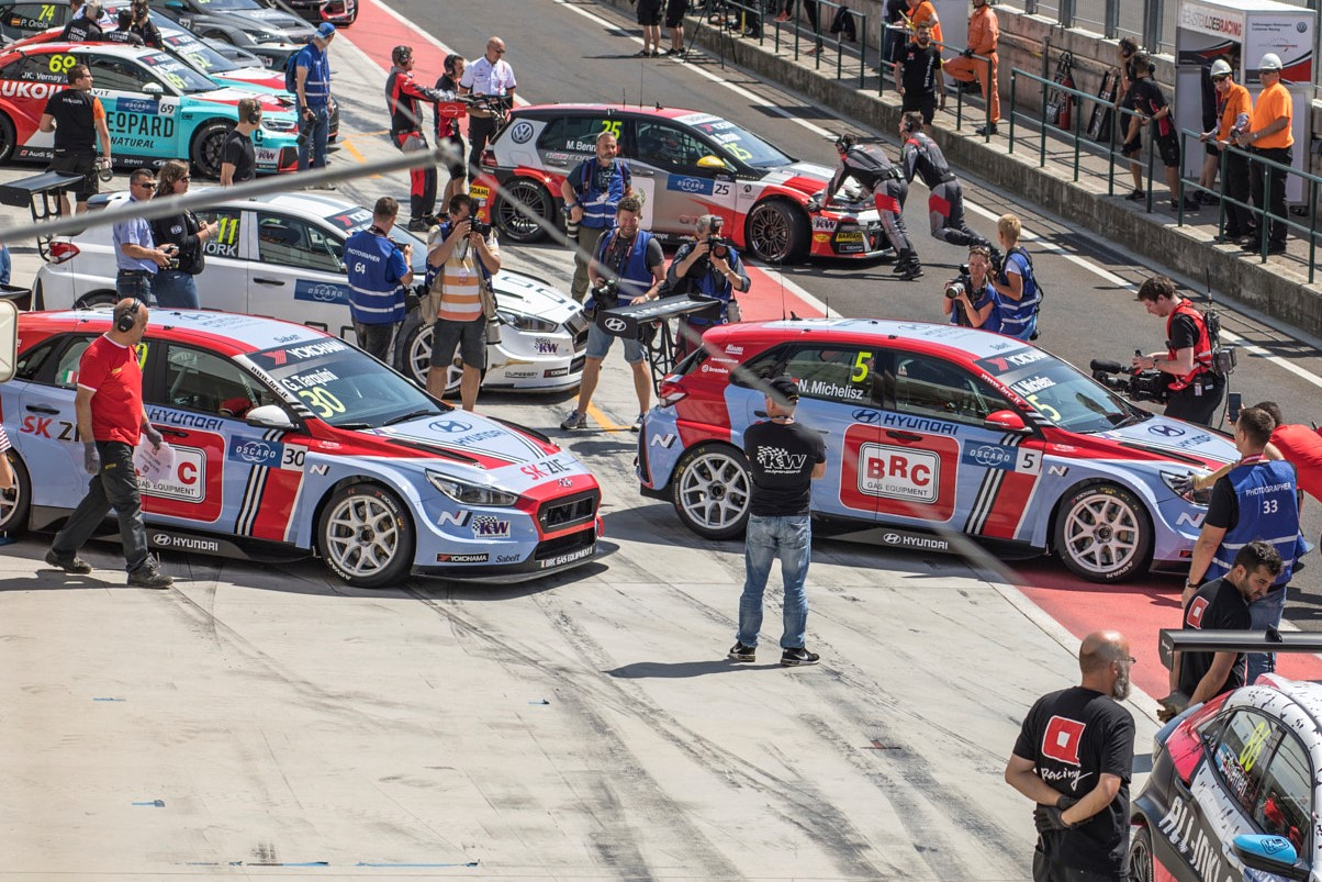 500px provided description: FIA World Touring Car Cup 2018 Circuit Racing Hungaroring [#cup ,#city ,#people ,#street ,#car ,#man ,#500px ,#sport ,#peace ,#picture ,#world ,#photography ,#touring ,#job ,#color image ,#fia ,#follow ,#photooftheday ,#chrisgaramvolgyi]